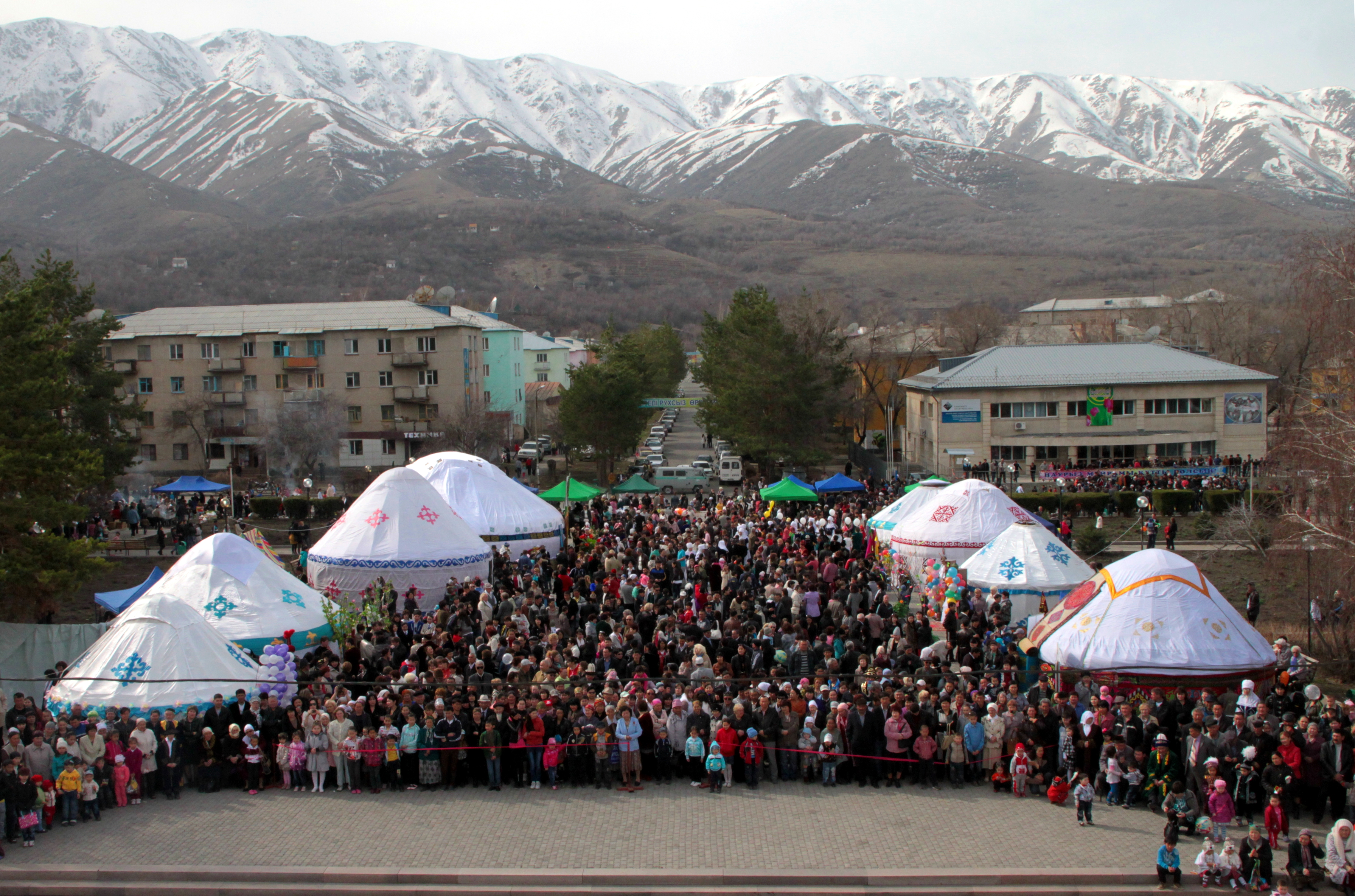 Main square in Tekeli, during Nowruz in 2013